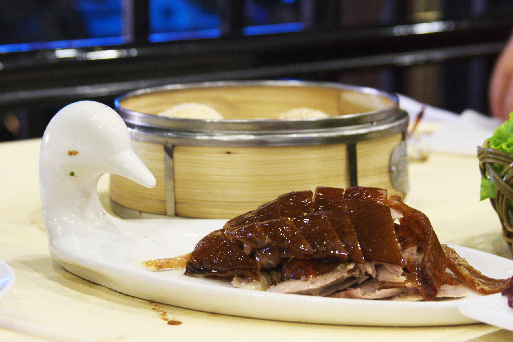 Peking Duck on a plate in a Bianyifang restaurant in Beijing.